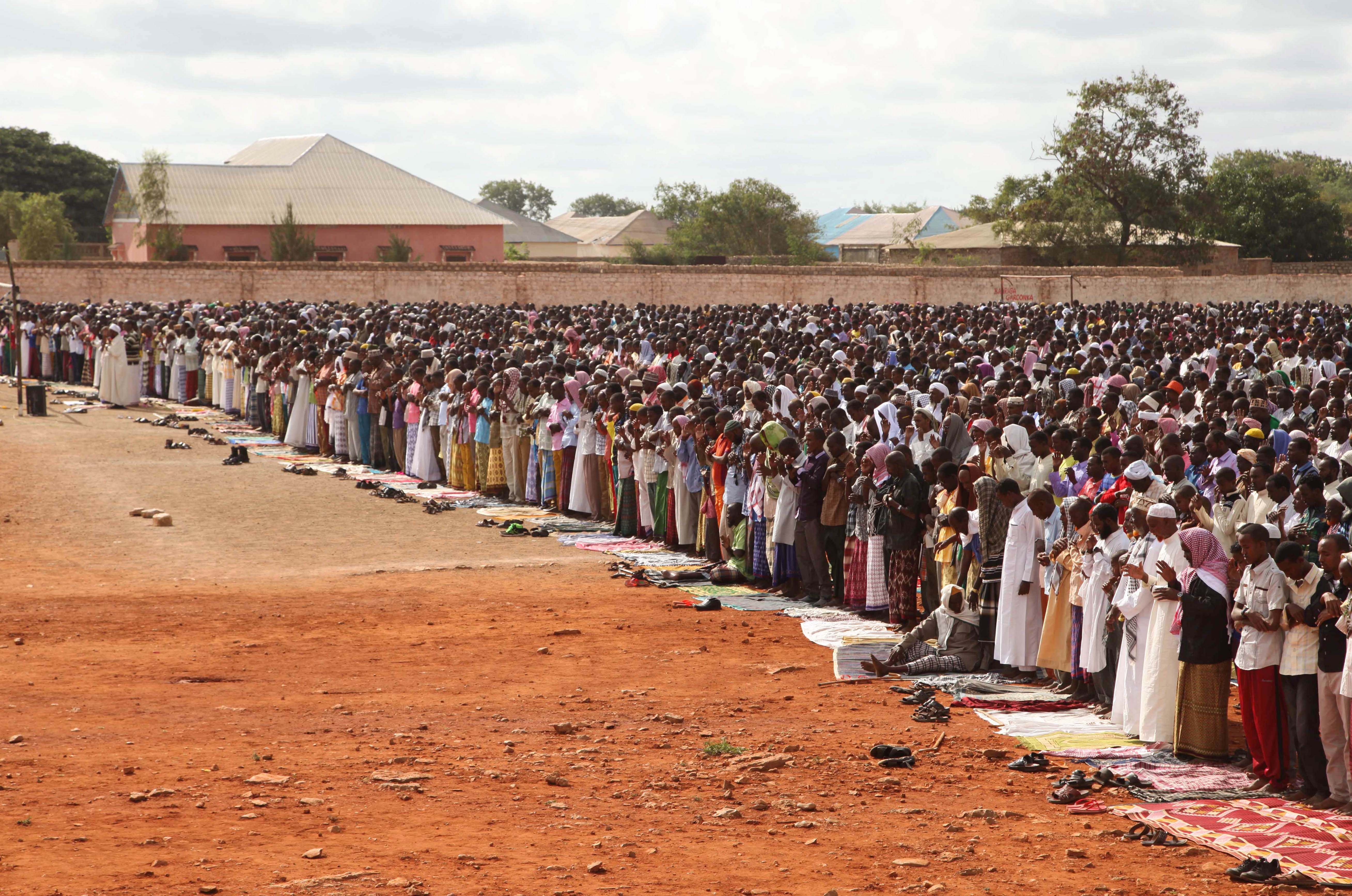 Muslims pray in Baidoa, Somalia, during Eid al-Fitr on July 28. AMISOM Photo / Abdi Dagane